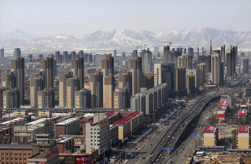 Remote view of Shijiazhuang